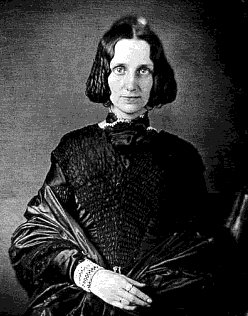 Mary Baker G. Eddy (1821–1910), founder of Christian Science